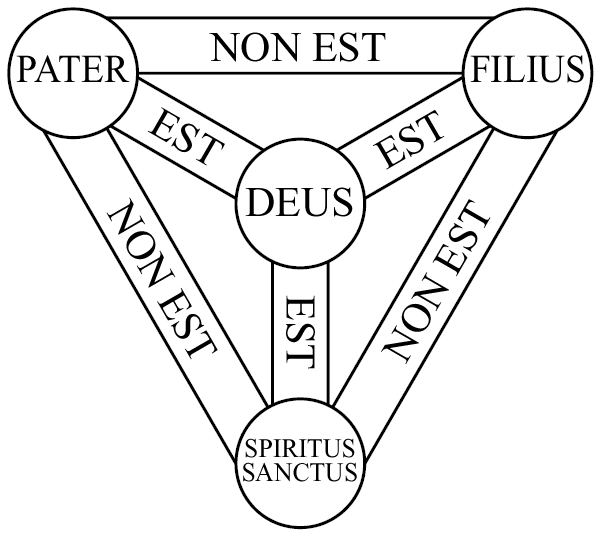 Basic minimal (equilateral triangular) version of the "Shield of the Trinity" or "Scutum Fidei" diagram of traditional Christian symbolism, with original Latin captions (as seen, for example, on the coat of arms of the Anglican diocese of Trinidad). For a smaller and more compact version of this, see Image:Scutum-Fidei-Arma-Trinitatis.png . For other versions of this diagram see Image:3enighed.png , Image:Shield-Trinity-medievalesque.png , and Image:Trinity knight shield.jpg . For discussion and explanation, see the main article Shield of the Trinity .